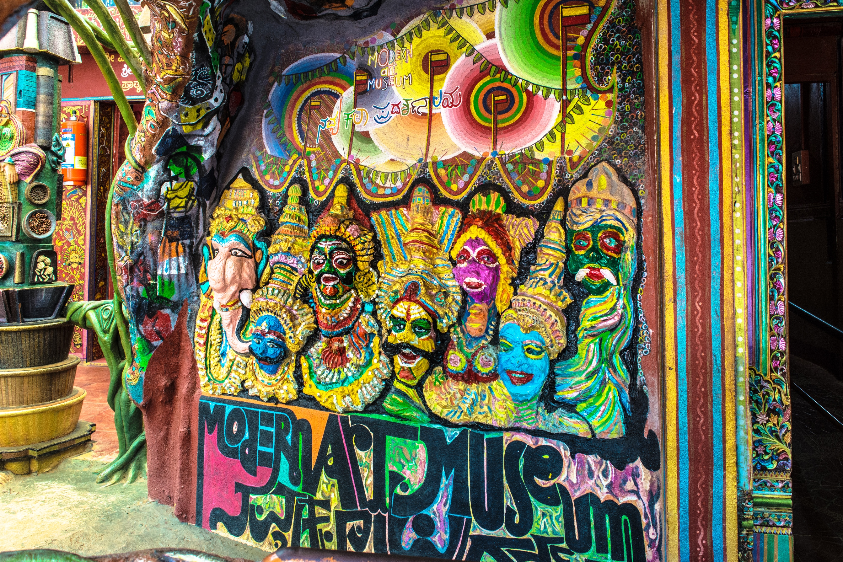 Utsav Rock Garden in india has several modern art works like that